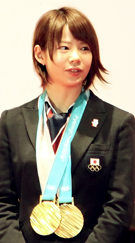 Nana Takagi in 2018